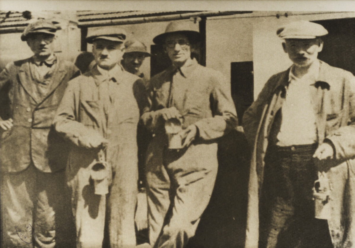 The Romanian writer and left-wing activist Panait Istrati (second from right), with miners from Lupeni area. Istrati was under contract with Lupta newspaper, reporting about the causes and spread of the Lupeni coal miners' strike.